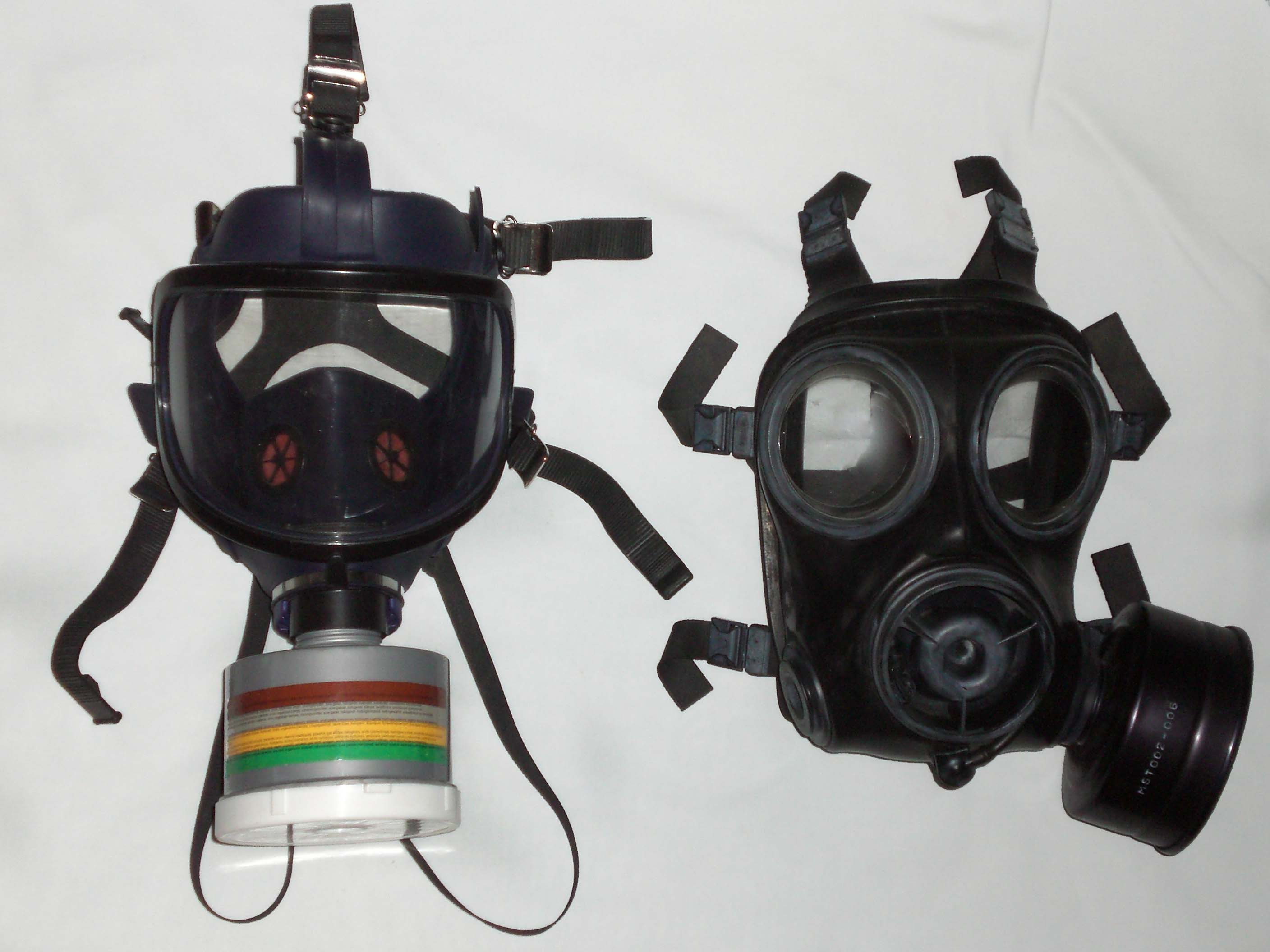 Industrial Sabre gas mask compared to a military S10